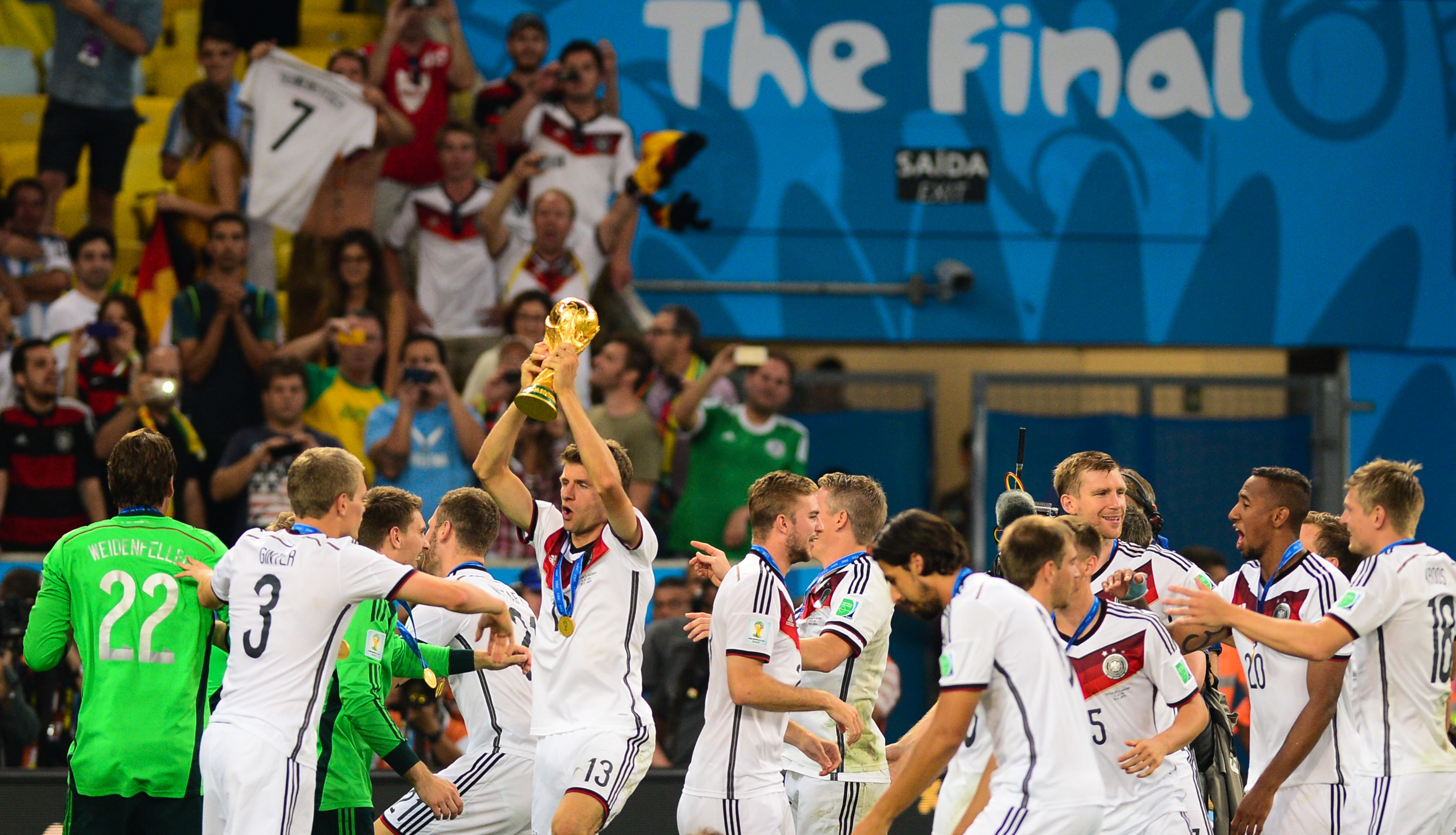 Award ceremony of the World Cup in Brazil